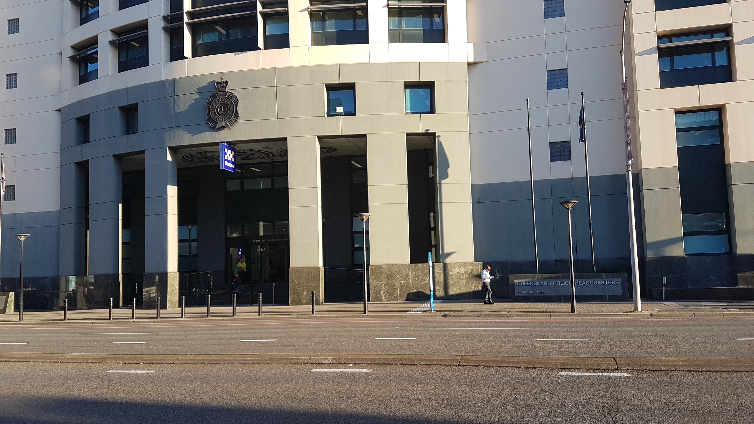 View of the front of Queensland Police headquarters in Roma Street, Brisbane.